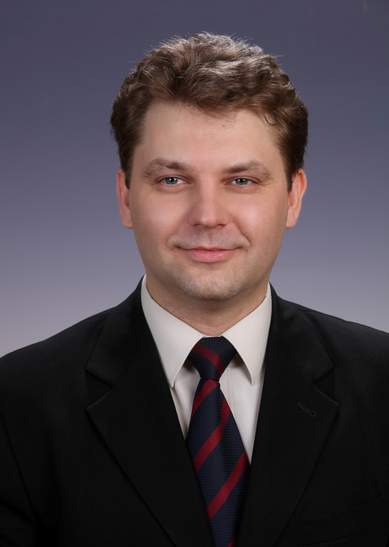 Norbert Németh composer.